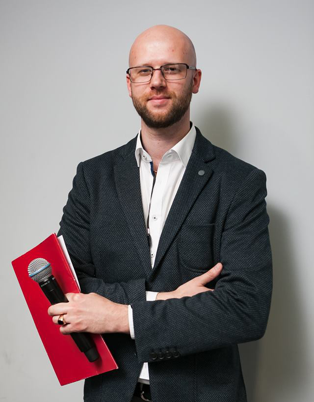 Deniss Čalovskis @ Digital Era 2018 Latvijas National Library